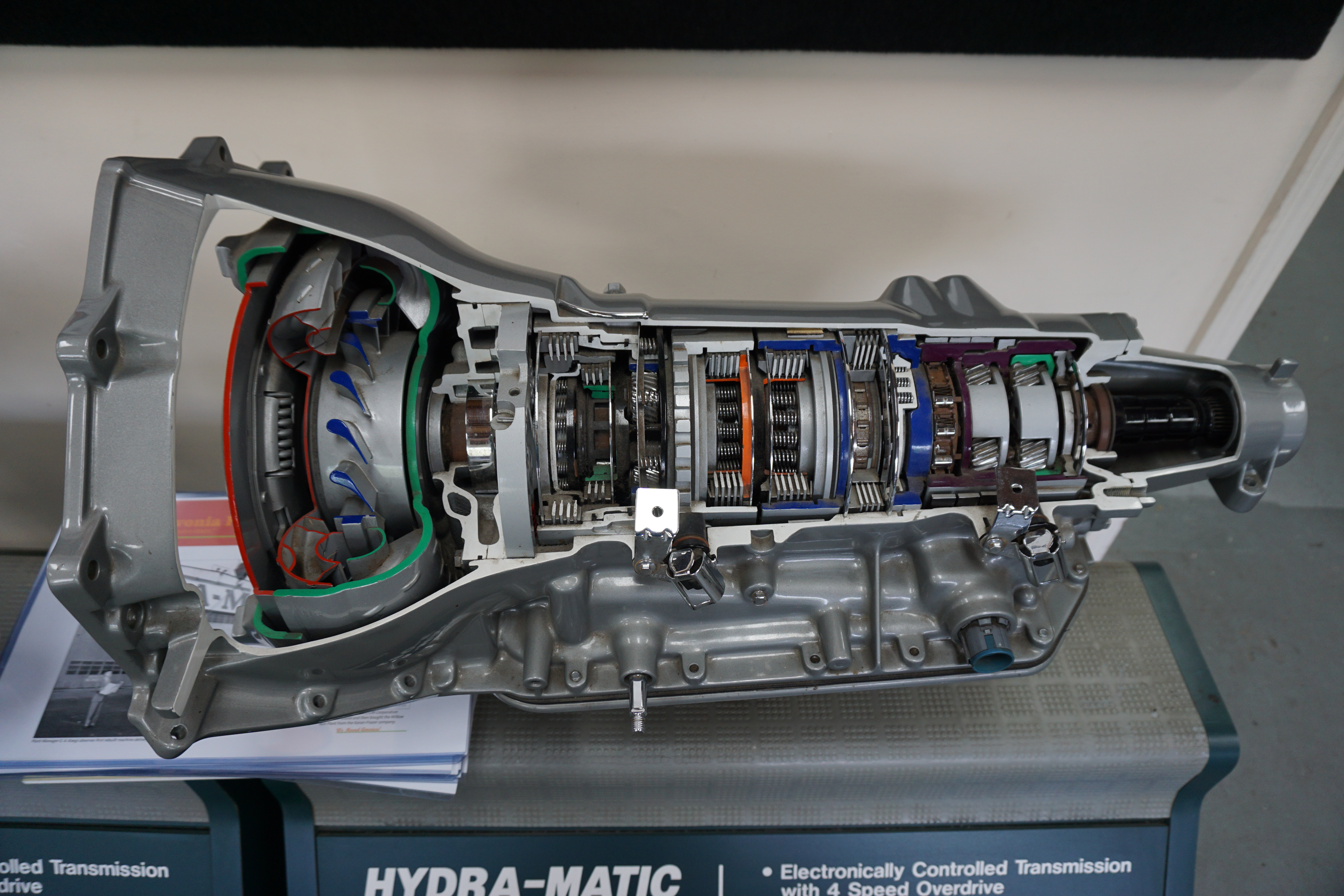 A Hydra-Matic 4L80 transmission at the Ypsilanti Automotive Heritage Museum in Ypsilanti, Michigan (United States).